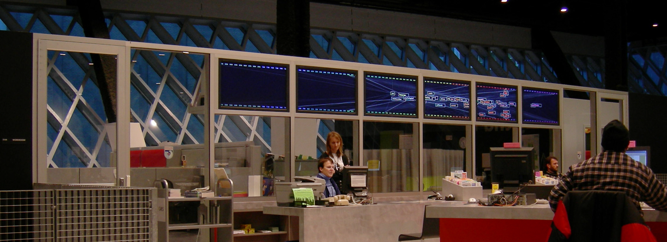 Reference desk, Charles Simonyi Mixing Chamber, Fifth floor, Central Public Library, Seattle, Washington. Over the reference desk is a permanent computer art installation, George Legrady's "Making Visible the Invisible." According to the library's web site, "six liquid crystal display screens interpret live data regarding material that patrons have checked out from the Central Library within the past hour."